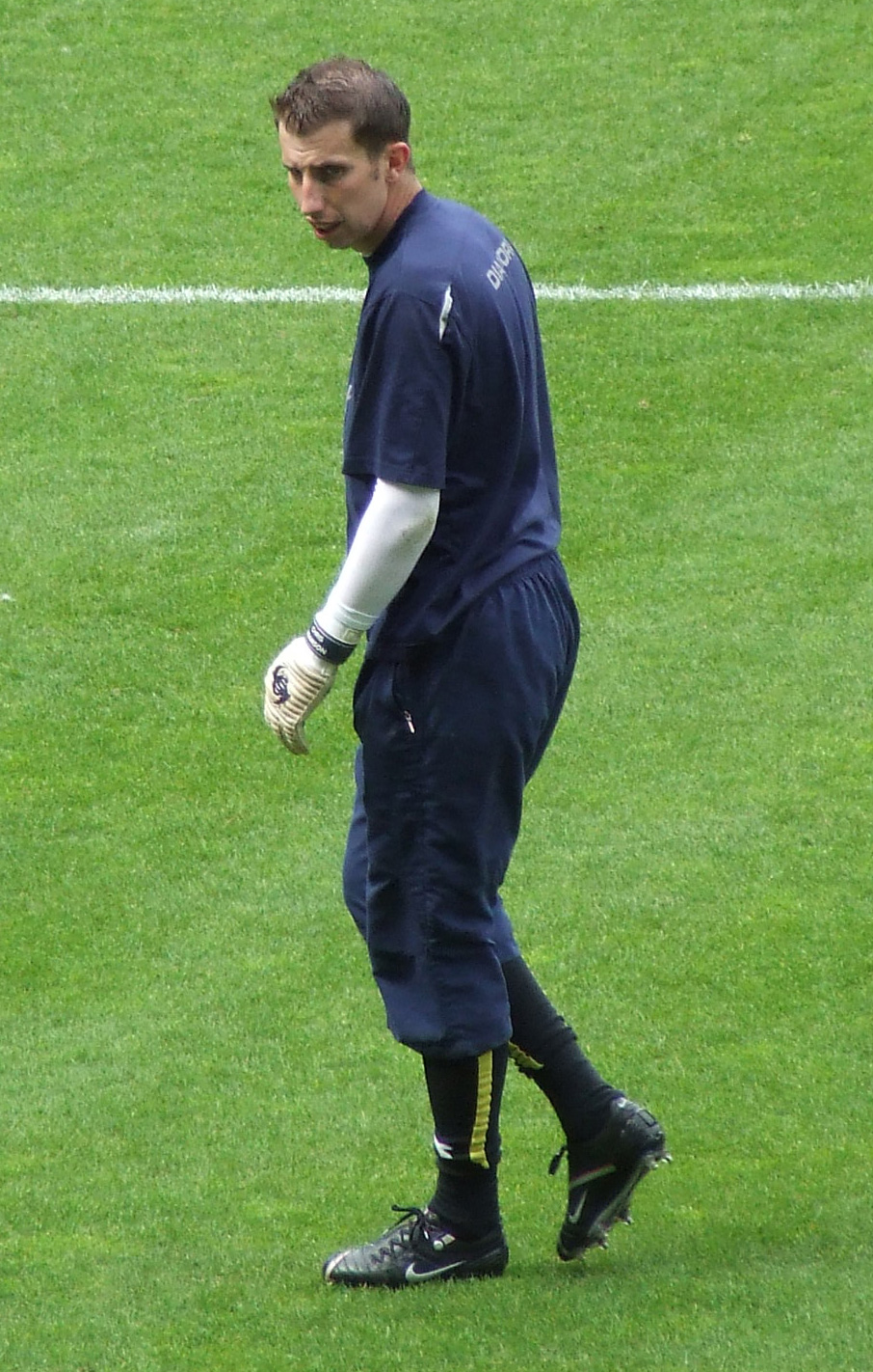 Chris Adamson at Hillsborough Stadium, Sheffield, UK